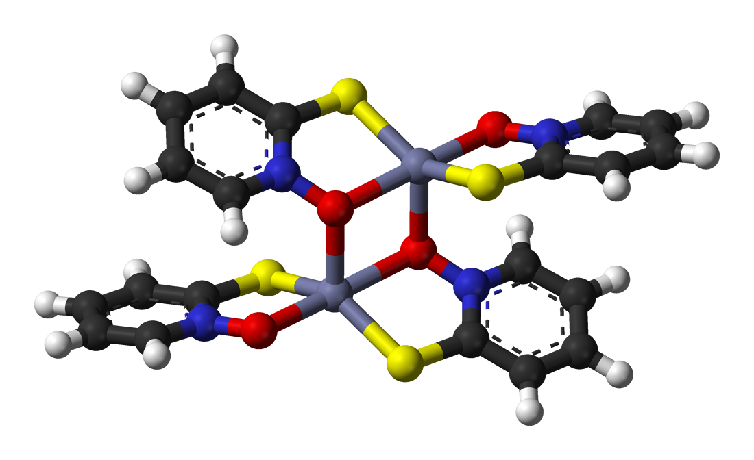 Ball-and-stick model of the zinc pyrithione dimer, [C10H8N2O2S2Zn]2. Structural data from B. L. Barnett, H. C. Kretschmar, and F. A. Hartman (1977). "Structural characterization of bis(N-oxopyridine-2-thionato)zinc(II)". Inorg. Chem. 16 (8): 1834-1838.